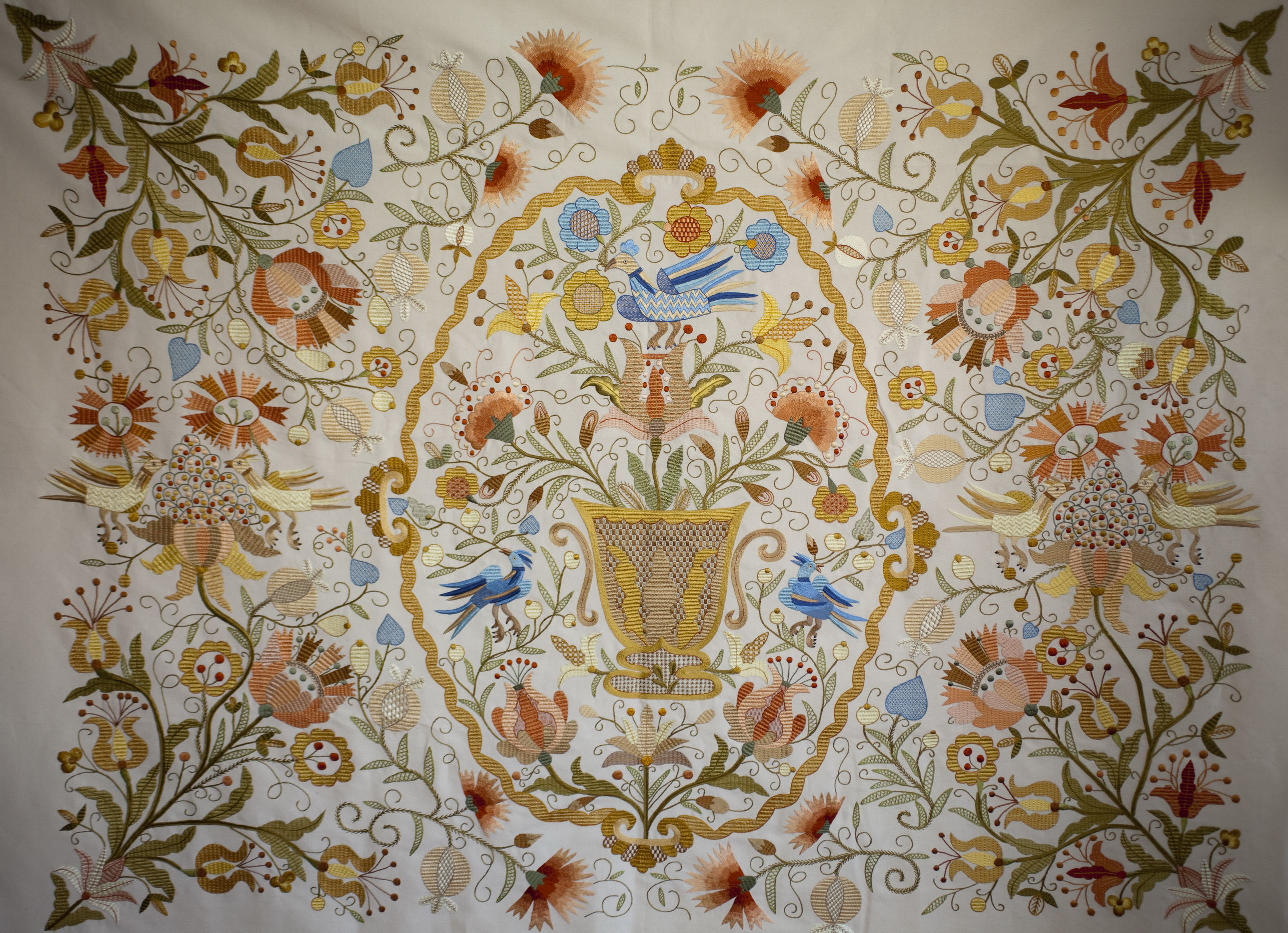 Valley of Pleasures Silk Embroidery Wall Tapestry